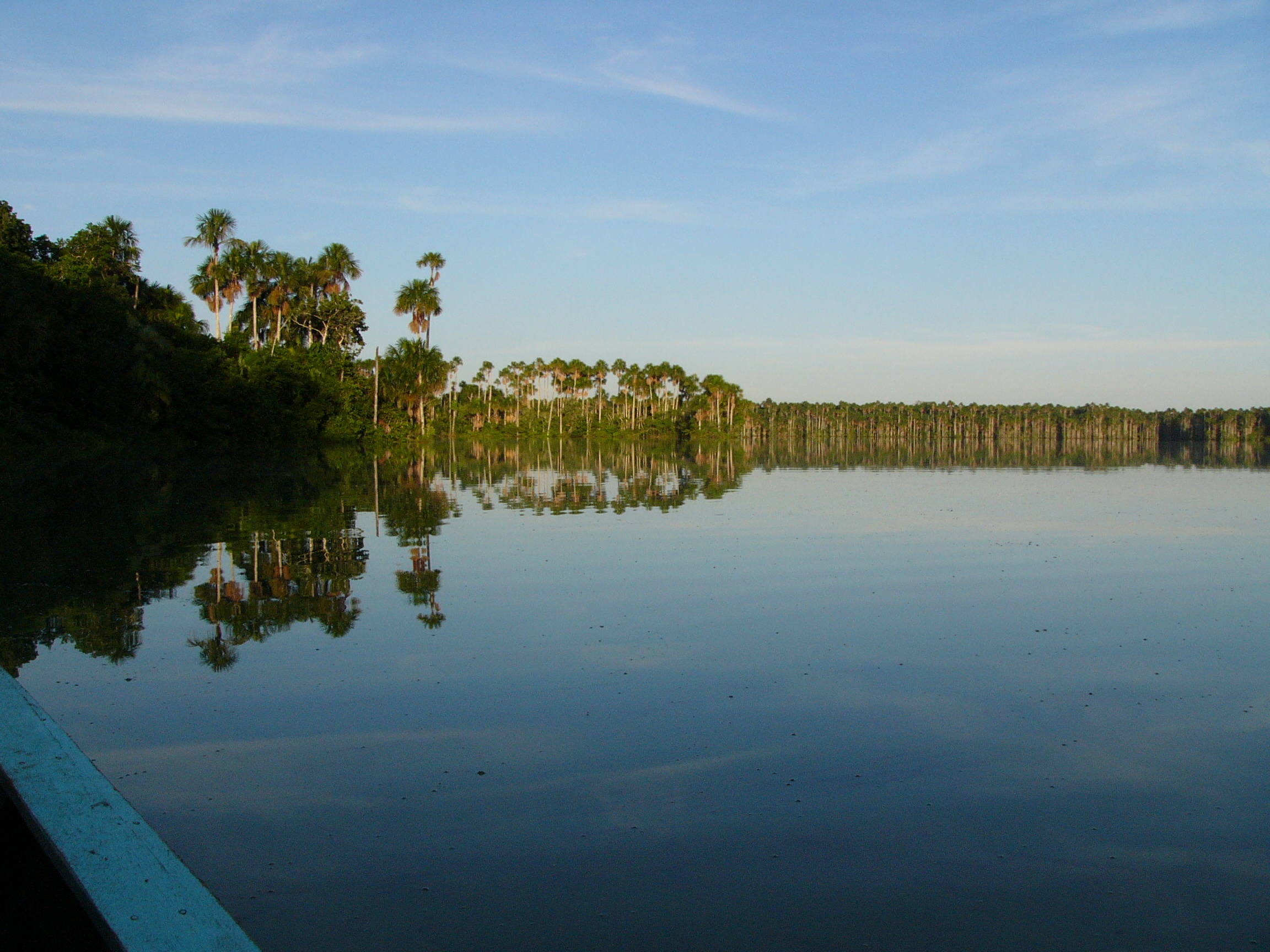 Lake Sandoval